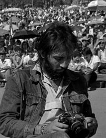 Kevin Carter - South African photographer